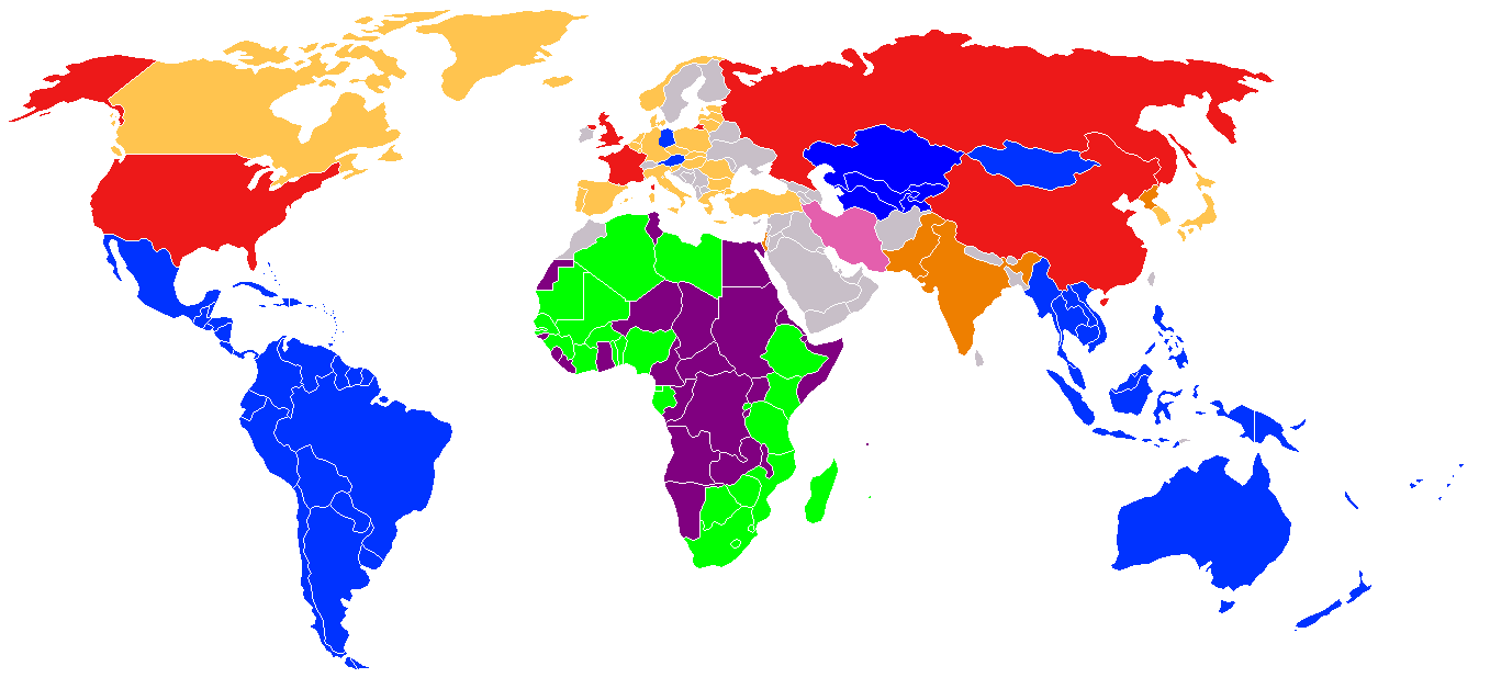 World map with nuclear weapon free zone status represented by color. As of May 2007. Five "nuclear weapons states" from the NPT Other known nuclear powers States in security alliance with nuclear weapons states (under nuclear umbrella) States that are members of an NWFZ which is in force States that have ratified an NWFZ treaty which is not yet in force States that have signed but not ratified an NWFZ treaty which is not yet in force States suspected of nuclear weapons development See Nuclear-Weapon-Free Zone, for details on the countries identified on the map.